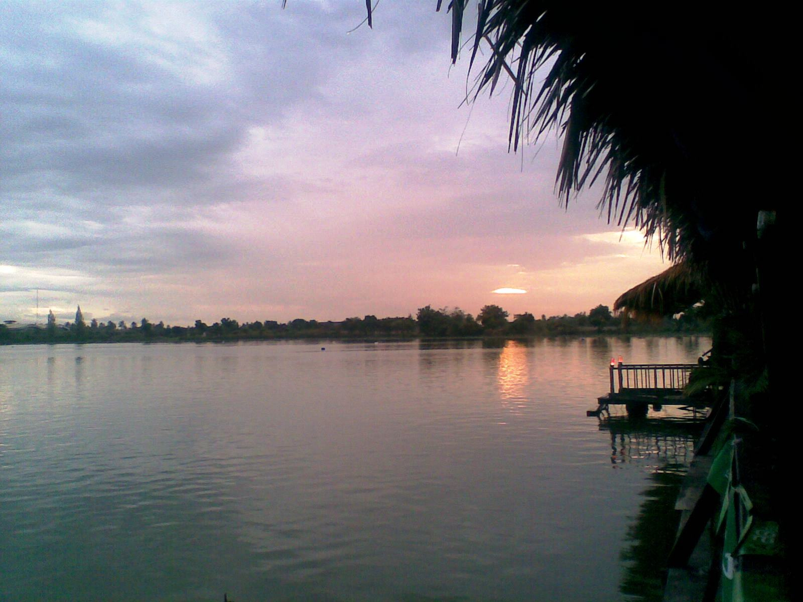 Lakeside restaurants at sunset. Bueng, Nong Kop, Ban Pong District, Ratchaburi Province, Thailand